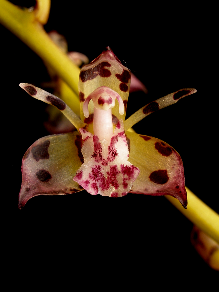 Flower of Thecostele alata